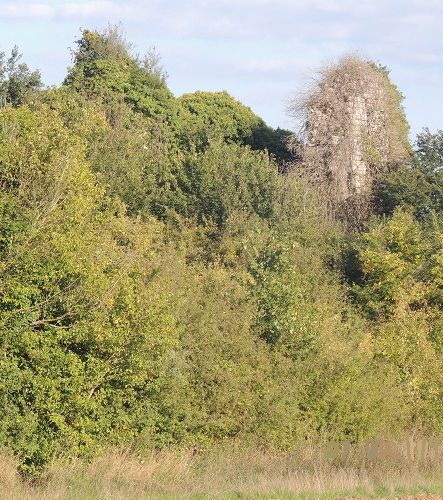 Tour de la Grange: only the top of a stone wall can be seen among a grove plants